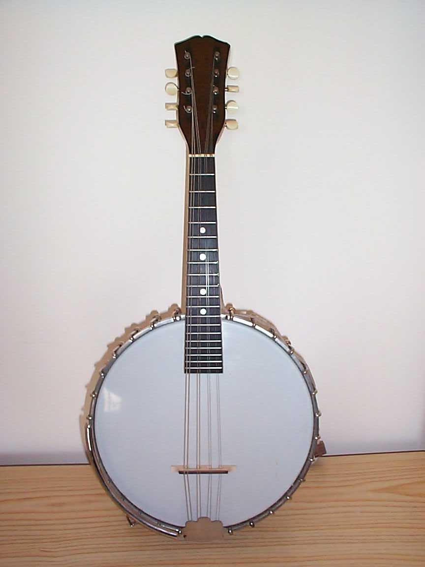 A 1920 Fairbanks "Little Wonder" mandolin-banjo, made by the Vega Co. in Boston, Massachusetts.